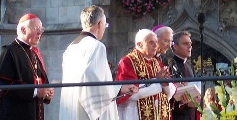 Pope Benedict XVI in Munich, Lord's Prayer at the Marian column. (See also Pope Benedict XVI in Munich)